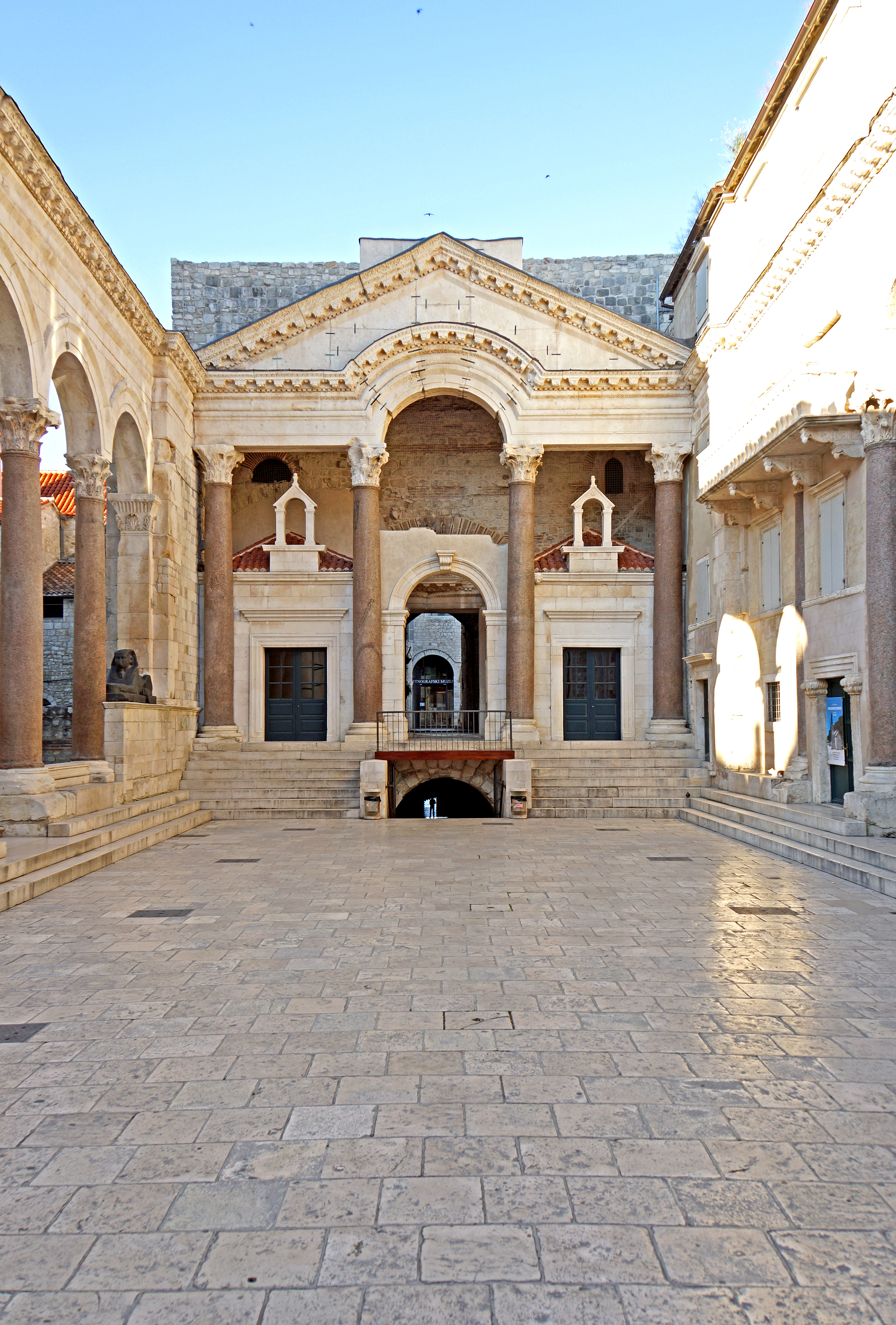 PLEASE,invitations or self promotion in your comments, THEY WILL BE DELETED. My photos are FREE for anyone to use, just give me credit and it would be nice if you let me know, thanks - NONE OF MY PICTURES ARE HDR. The Peristil is the rectangular space at the centre of Diocletian's Palace. On the left is the Cathedral of St Domnius and straight ahead is the Protiron intended to "frame" Emperor Diocletian as he emerged from his private apartments through the Vestibule ready to receive the adoring masses. The opening in the lower centre is a stairway to the substructure (basement) of Diocletian's Palace.